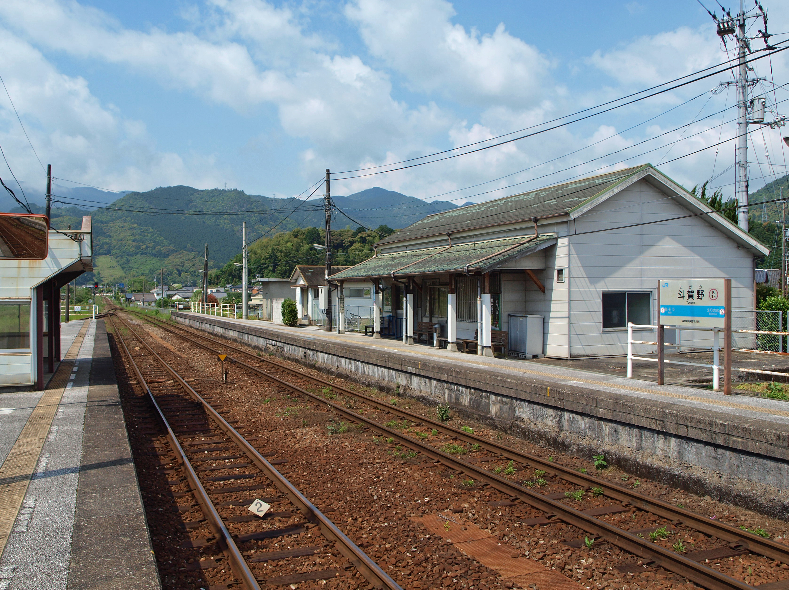 Togano station, Dosan-line, JR Shikoku, Japan